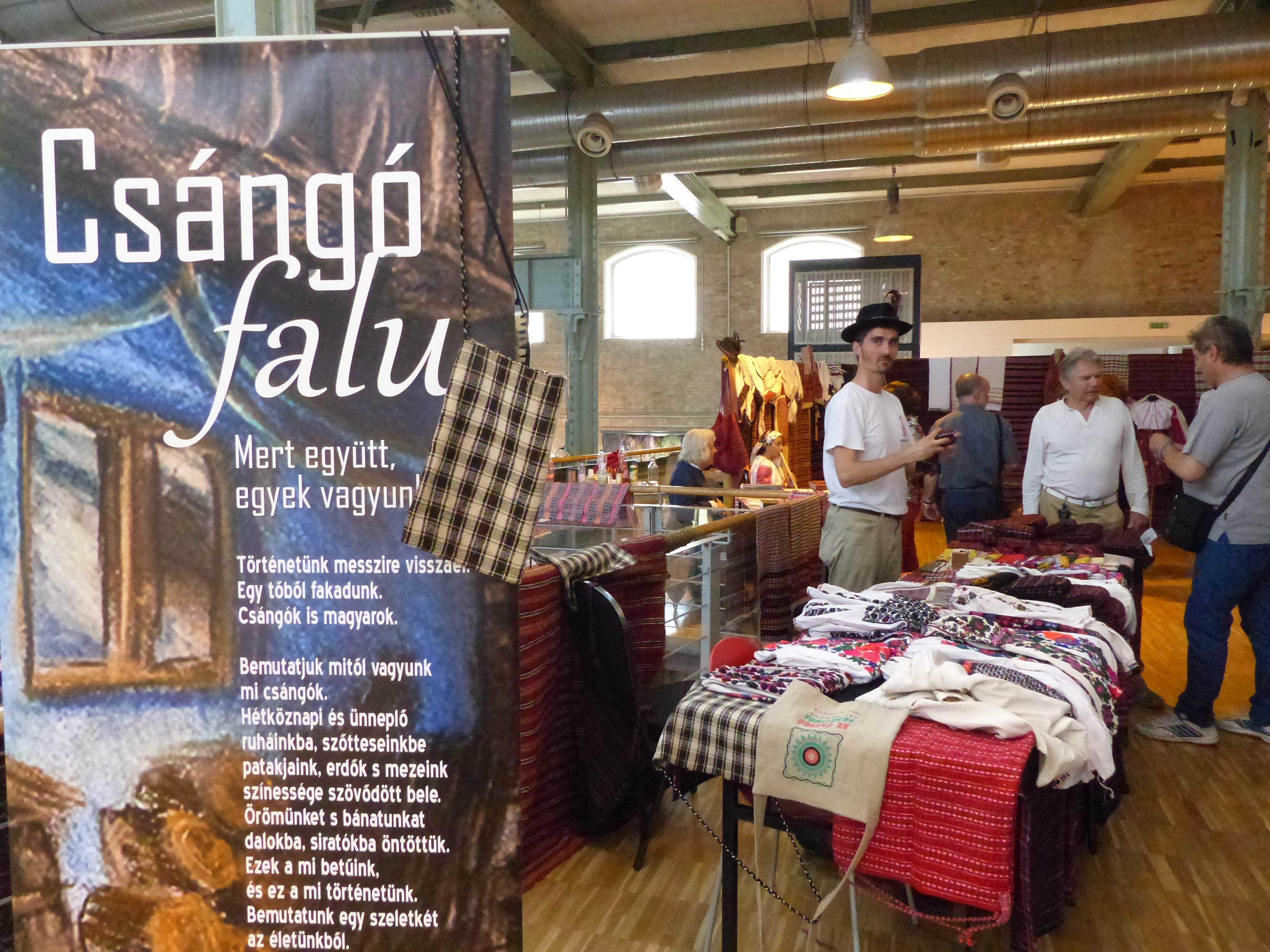 III. Székely Festival. Festival of the Székely Land. Taken on Sunday, 14th of May, 2017.